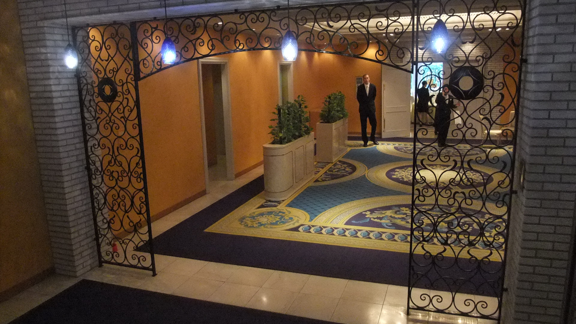 Ironwork at Hotel New Otani Tokyo (Tokyo, Japan)